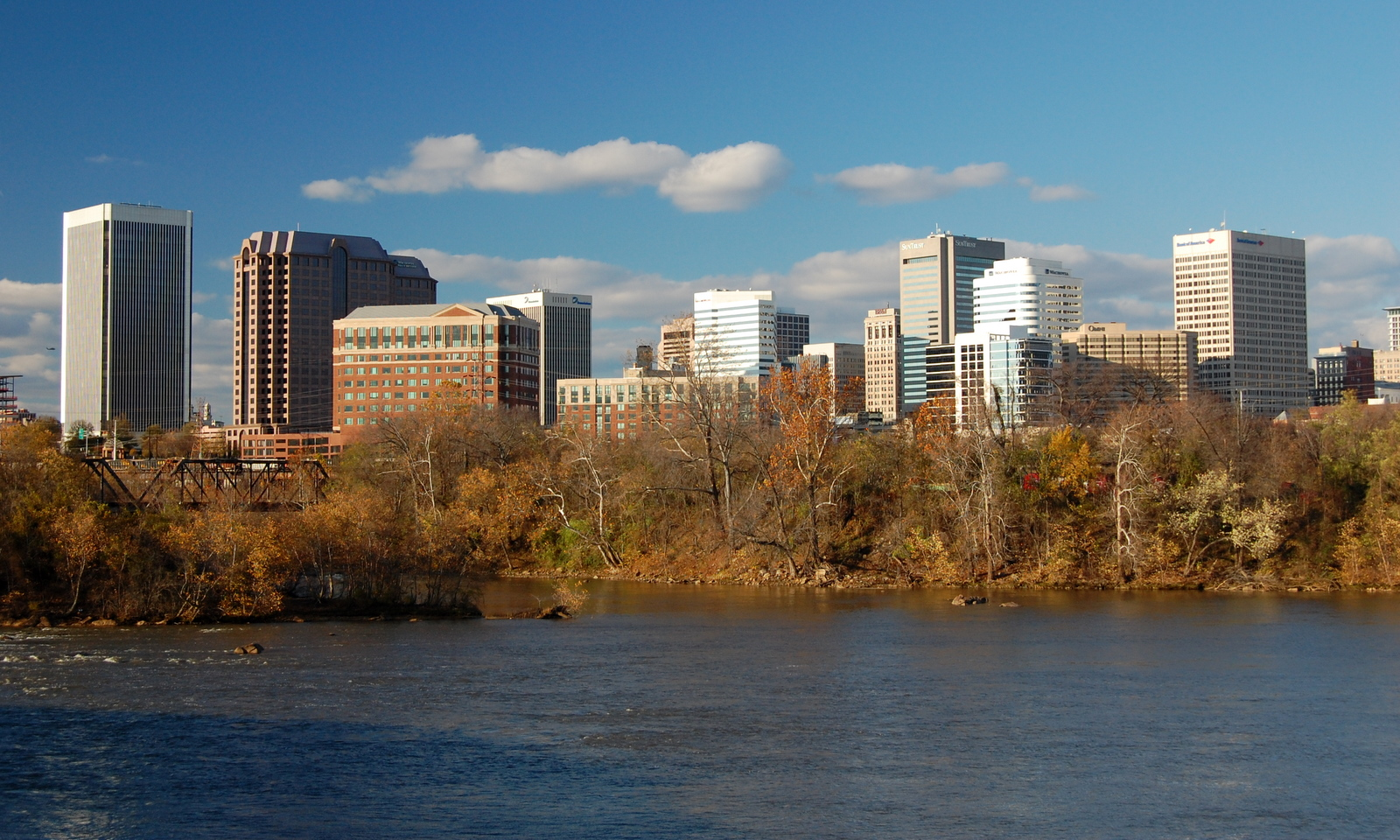 Skyline of Richmond, Virginia with the James River in the foreground. The building to the far left is the Federal Reserve.